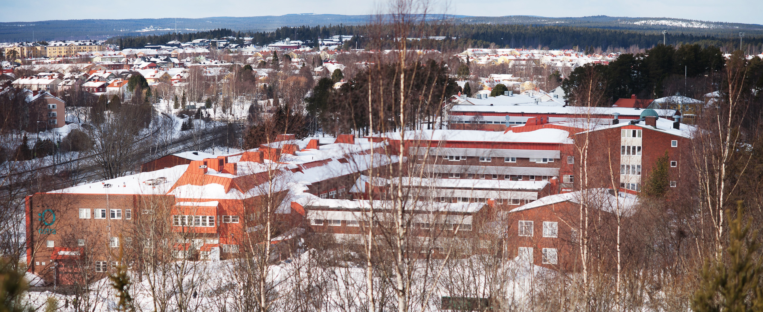 Östra Gymnasiet photographed from Hamrinsberget, Umeå.